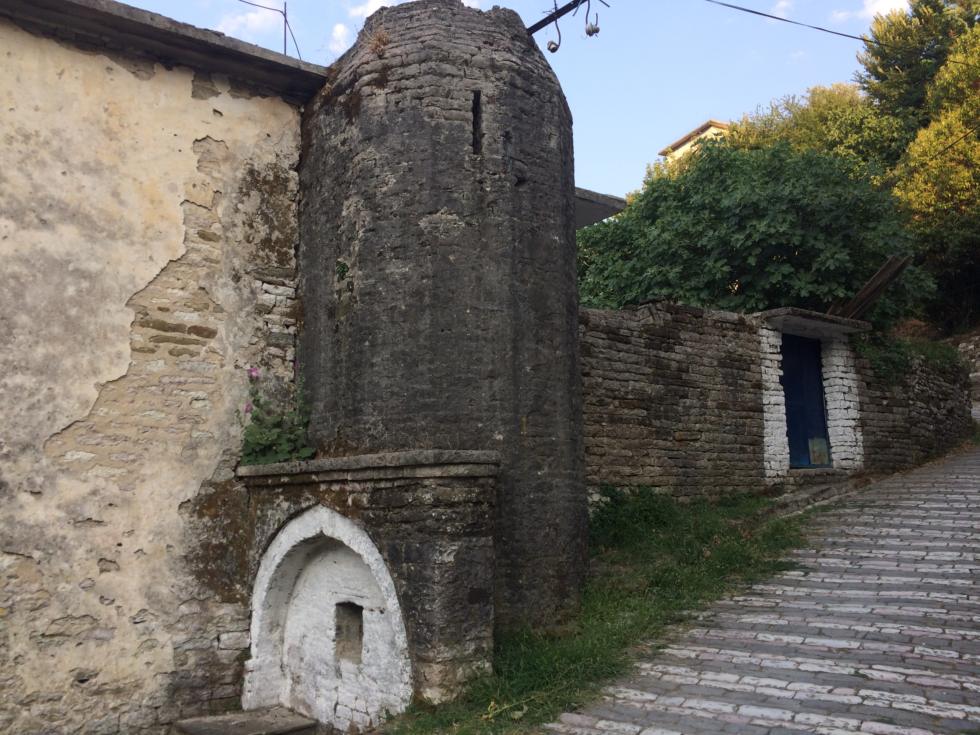 Minaret of the Meçite Mosque